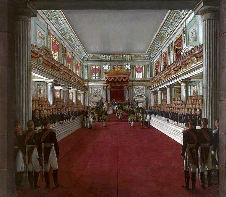 Coronation of Alexandra Feodorovna by Nicolas I of Russia in the Castle of Warsaw in 1829